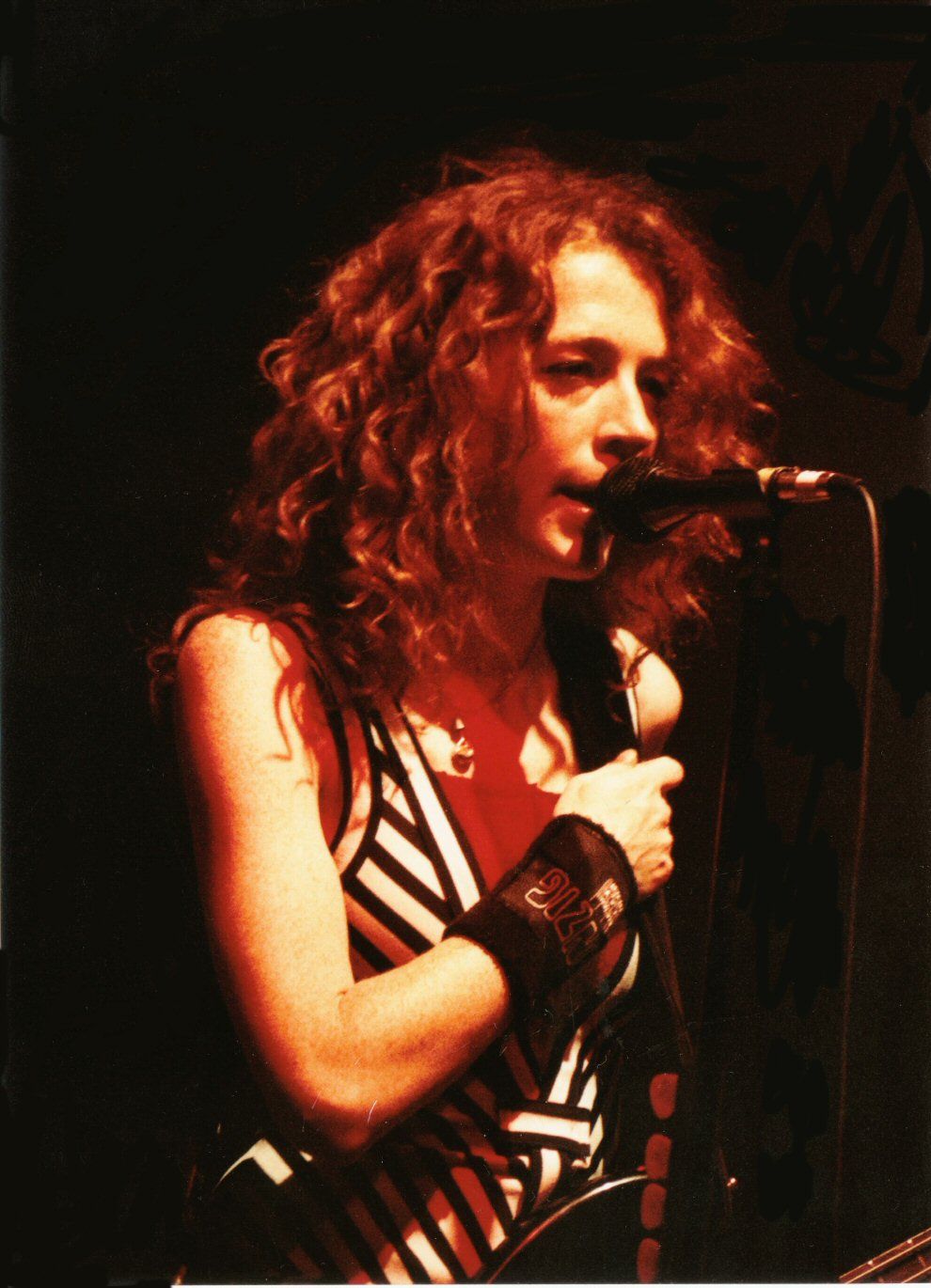 Canadian rock guitarist/singer Melissa Auf der Maur at the London Astoria. She played in the bands Smashing Pumpkins and Hole (band).